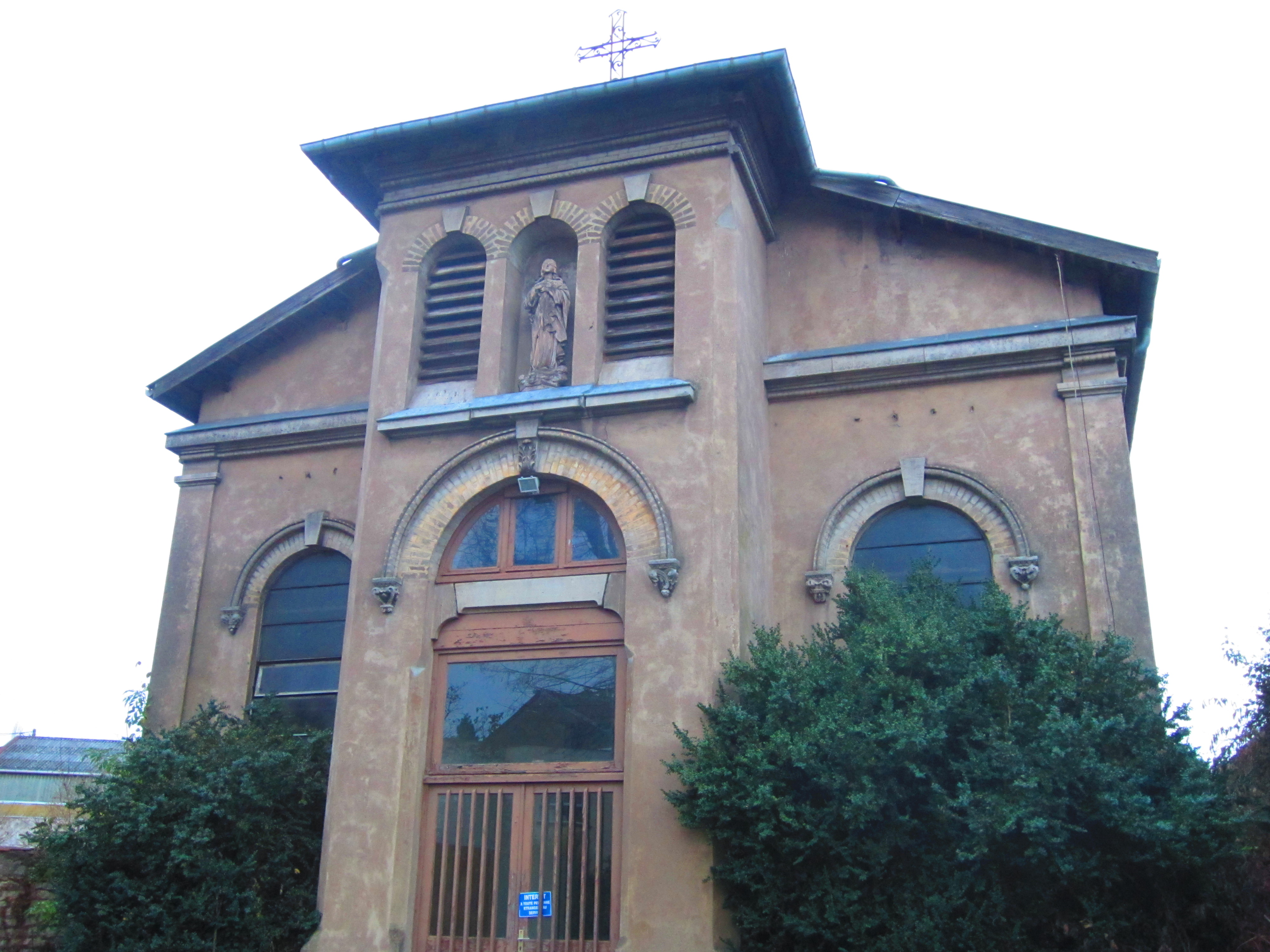 Chapel ste anne Pompey